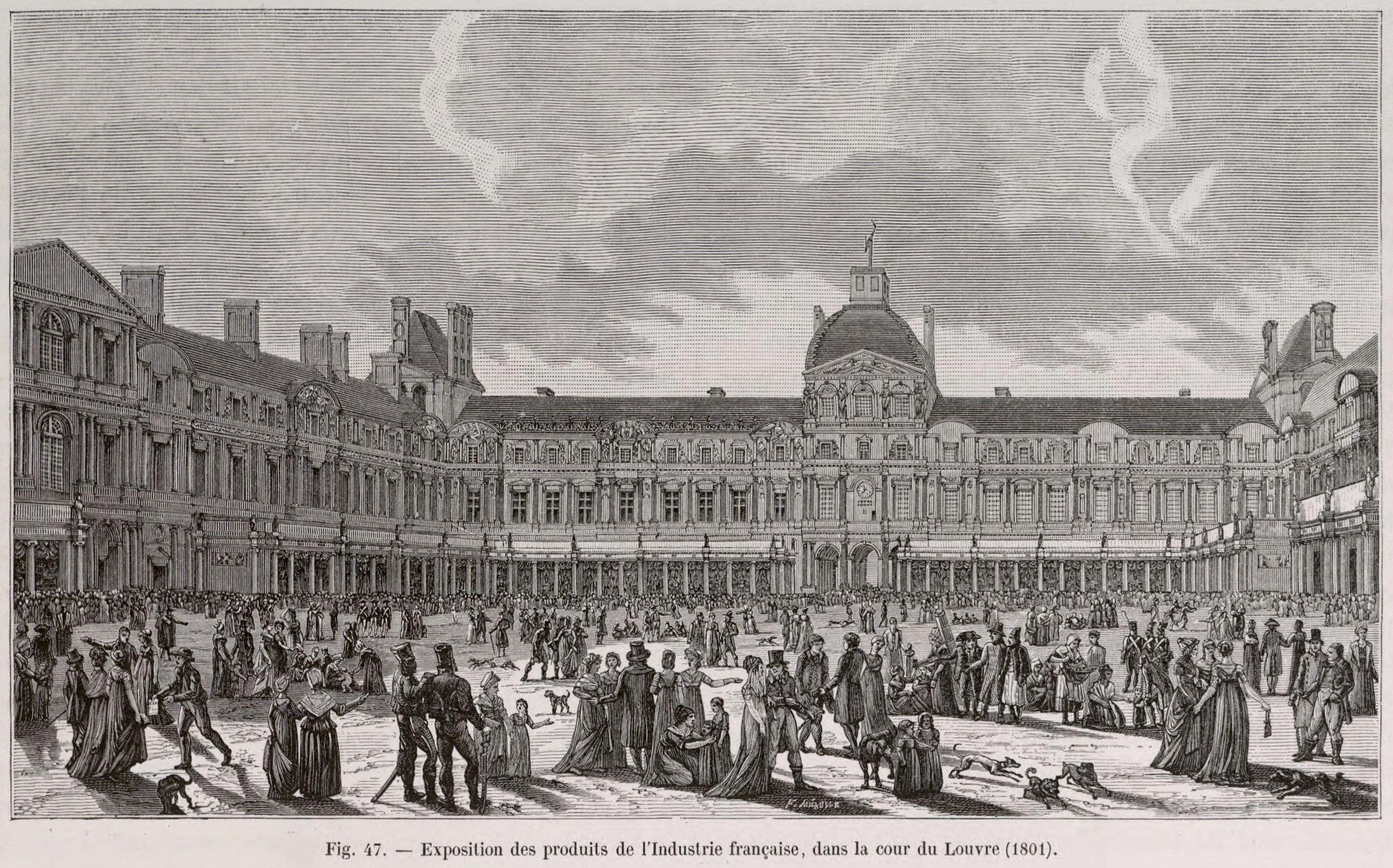 An 1801 representation of an industrial exposition in the courtyard of the Louvre. Before the construction of Versailles and the Louvre's transformation into the famous museum that it is today, the monument was once home to French royalty. In 1793, following the Revolution, it was slowly transformed into an art museum whose collections would grow over the next century.